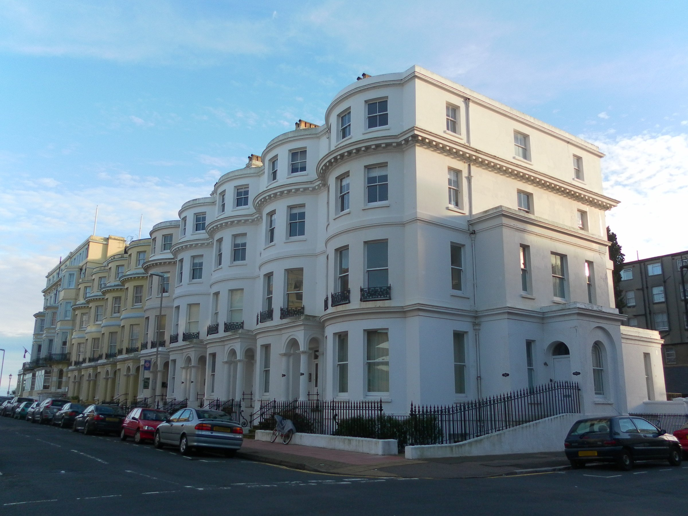 5–21 Hartington Place, Eastbourne, East Sussex, England. Listed at Grade II by English Heritage (NHLE Code 1353117)